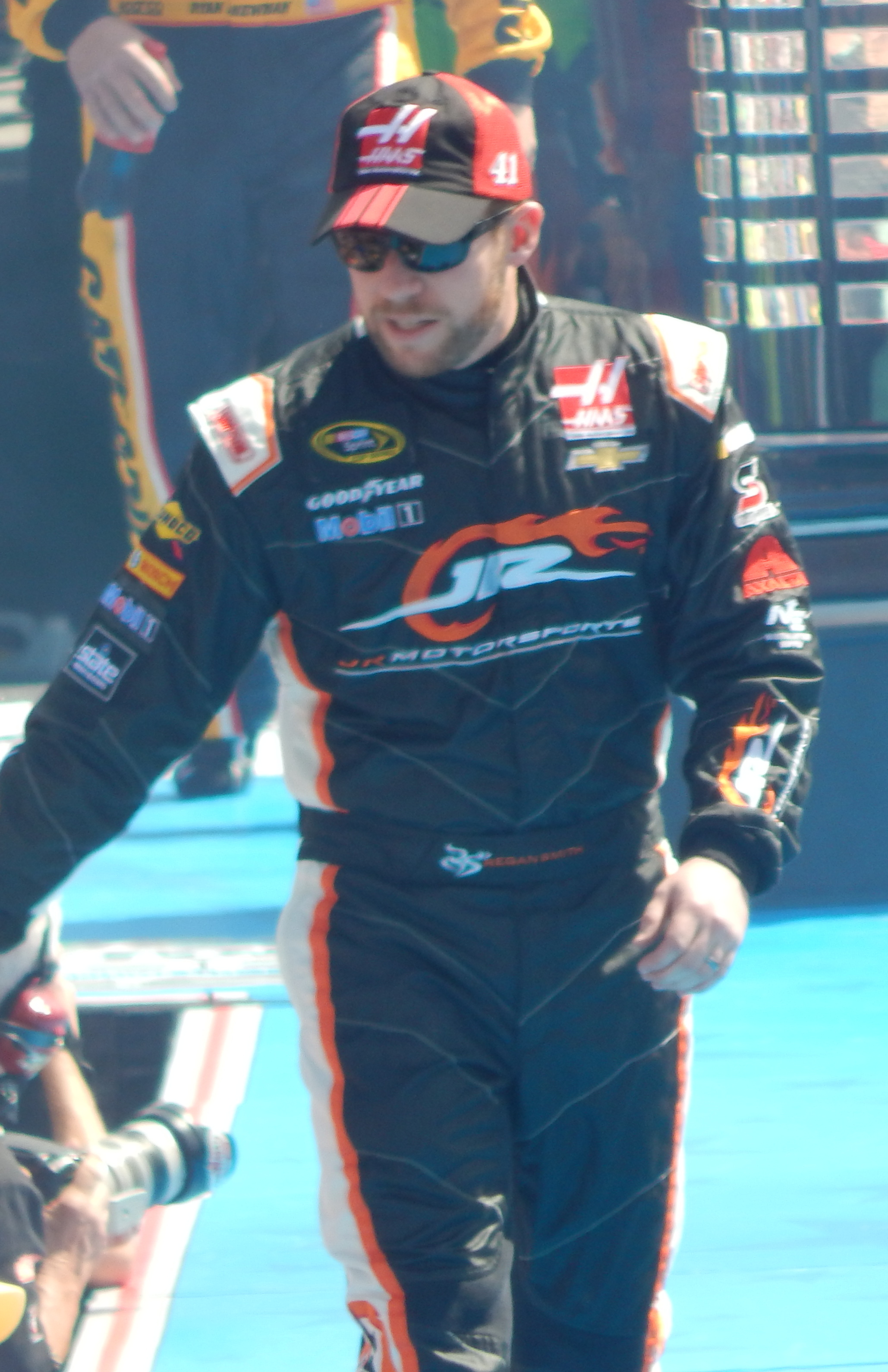 Regan Smith being introduced at Daytona International Speedway.